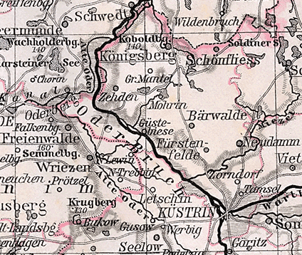 Detail from a map of Brandenburg.